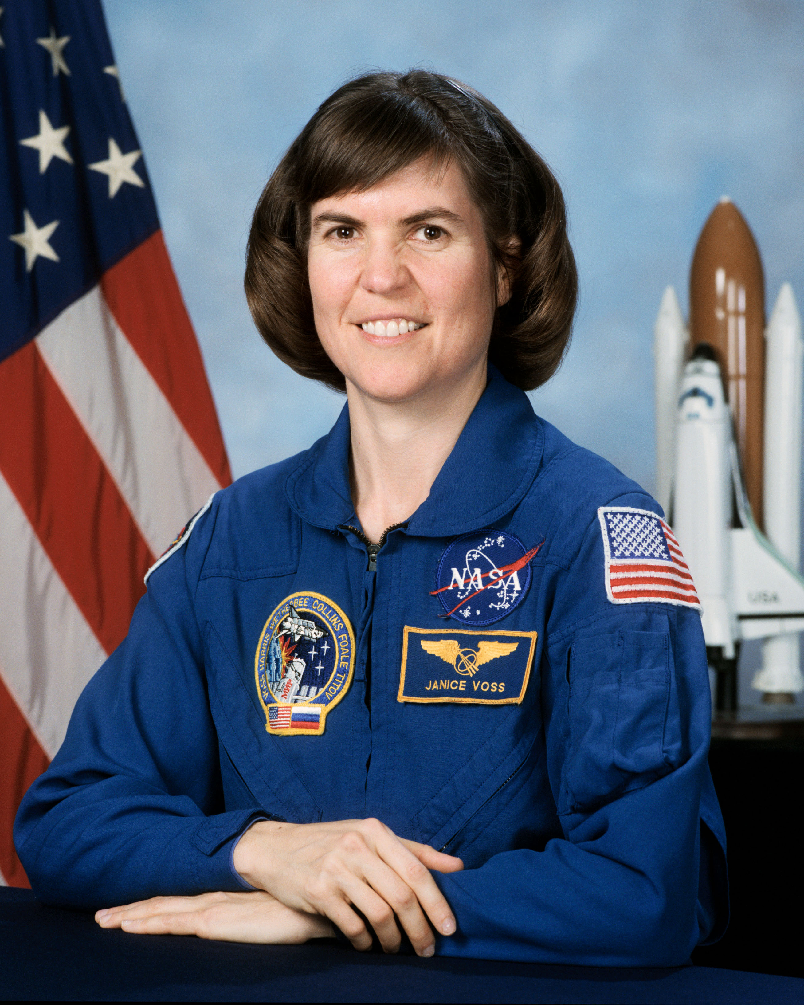 Astronaut Janice Voss, mission specialist